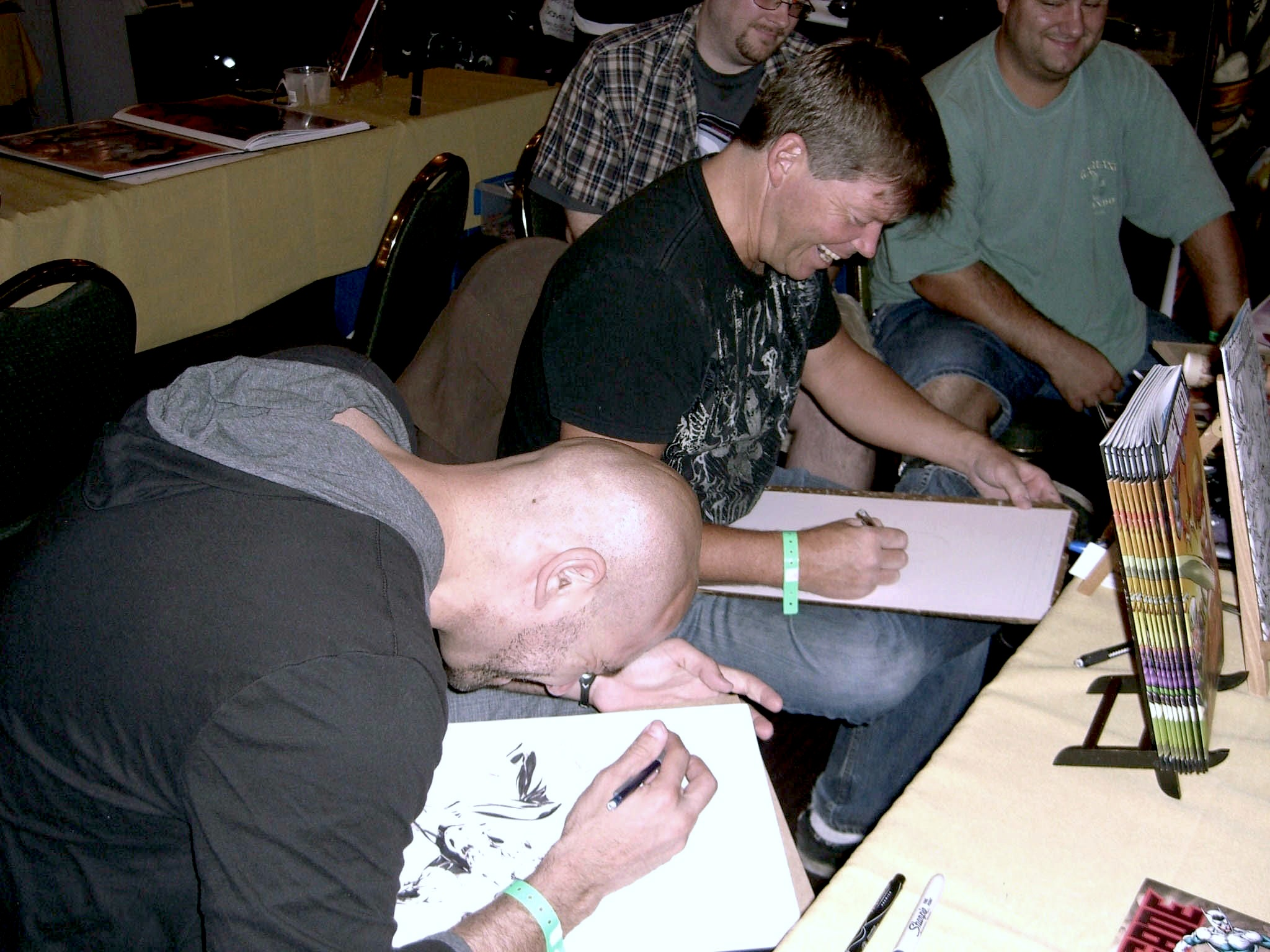 Comic book creators Marat Mychaels (foreground, left) and Rob Liefeld (center/right) sketching at the Big Apple Convention in Manhattan, October 2, 2010. Photo by Luigi Novi. This photo may be used, modified and published for any purpose, only if a easily visible credit to the photographer is placed near the photo in each instance in which it is used. (See licensing information below.) Publication of this photo without this proper attribution constitutes copyright infringement. For more information on my photos, you can contact me here.